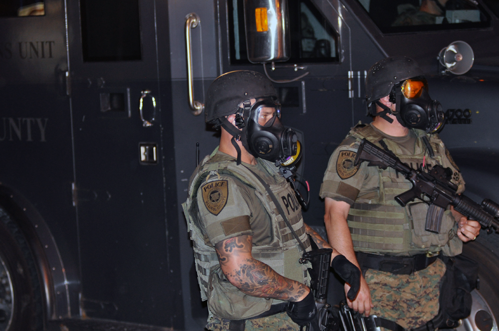 State troopers on patrol with flash.